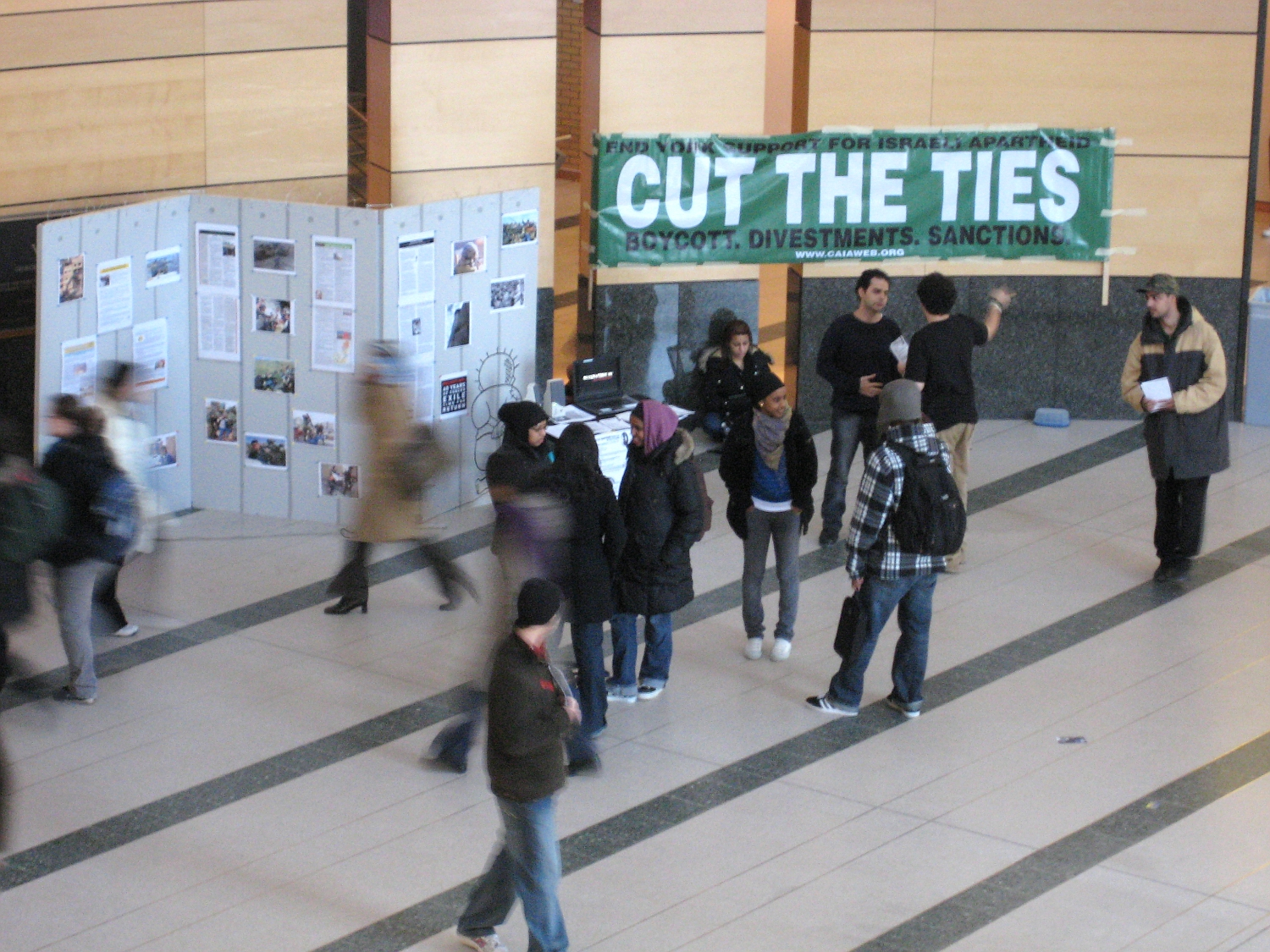 The Coalition Against Israeli Apartheid holding an information session in Vari Hall.